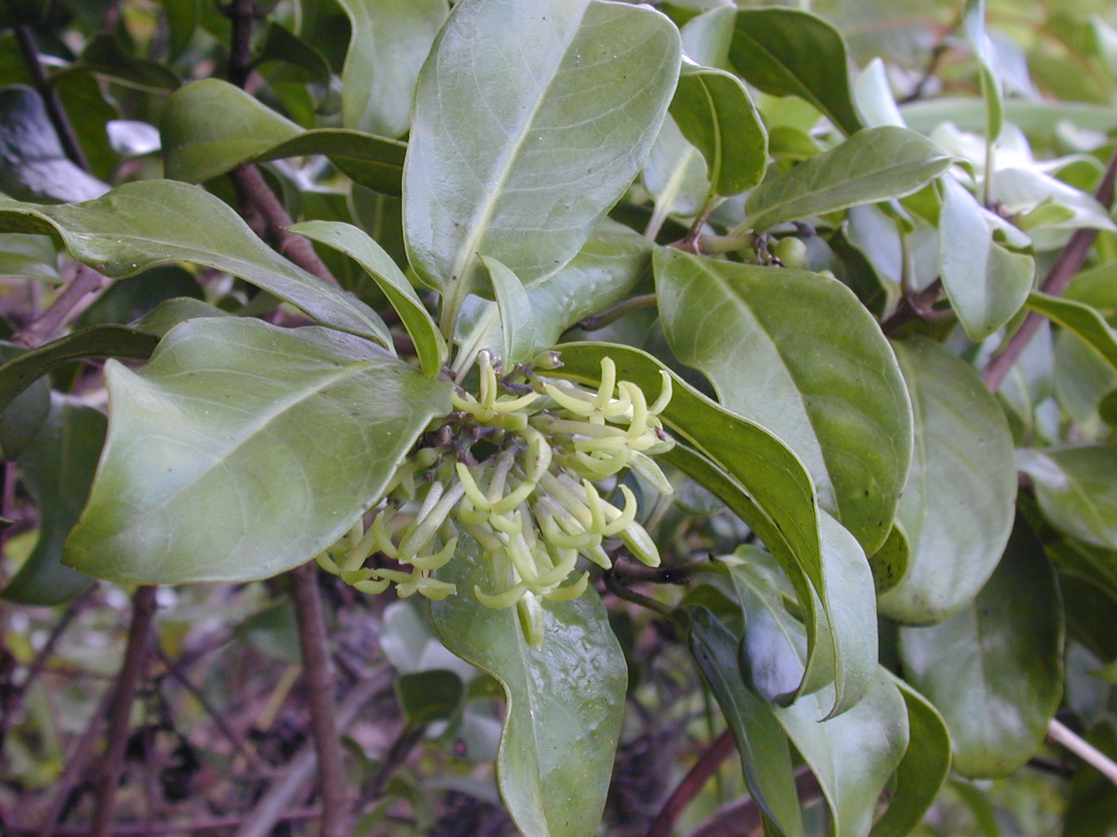 Kadua affinis (flowers). Location: Maui, Waihee Ridge Trail